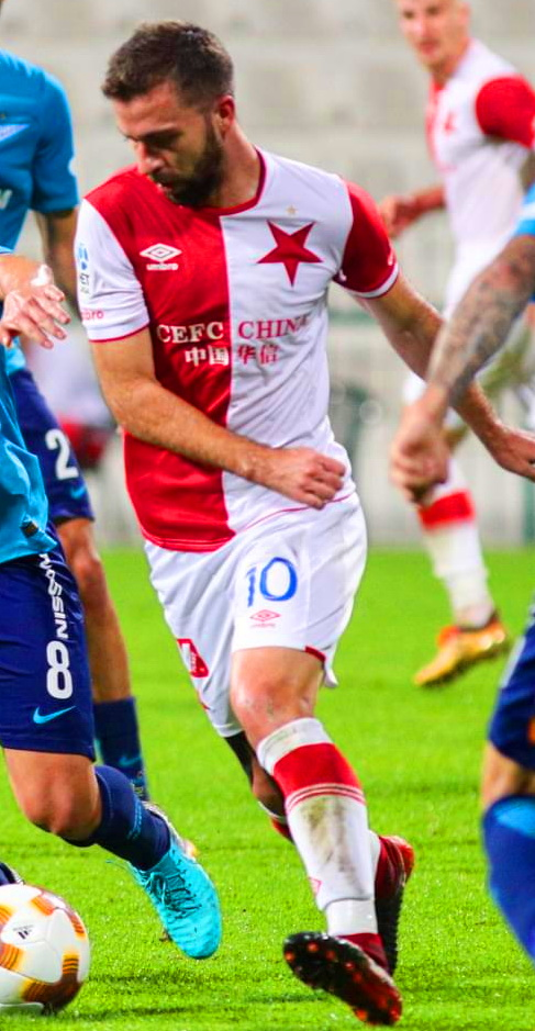 25.01.2018. Объединенные Арабские Эмираты, Дубай, «Мактум ибн Рашид Аль-Мактум». «Газпром»-тренировочные сборы в Дубае: товарищеский матч «Зенит» — «Славия».